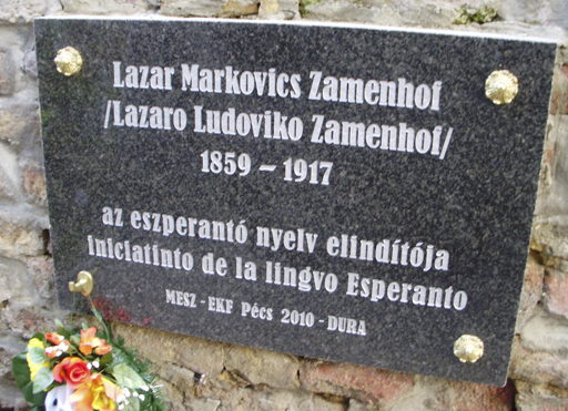 Plaque of Ludwik Zamenhof, Pécs, Hungary